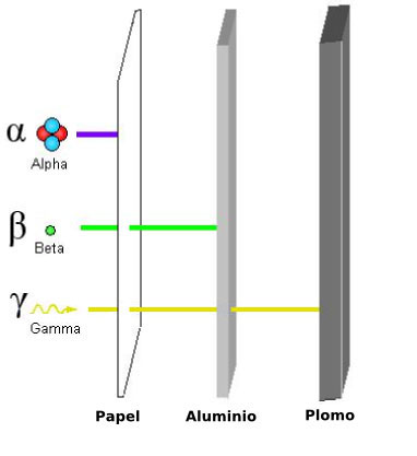 This is a picture created by me using MS Word and MS paint showing the types of radiation and their penetration levels.